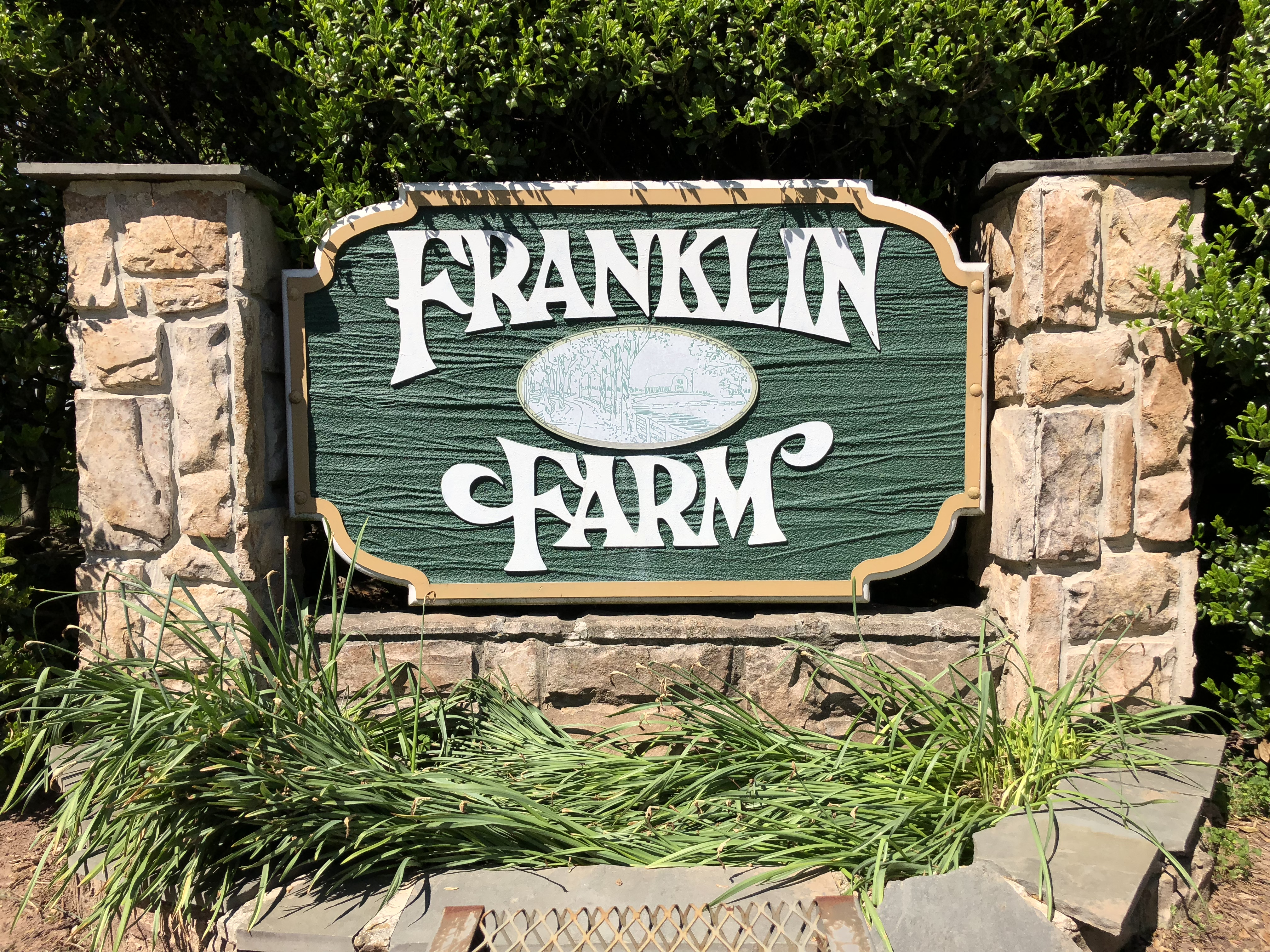 Sign at the east entrance to Franklin Farm along Franklin Farm Road in the Franklin Farm section of Oak Hill, Fairfax County, Virginia